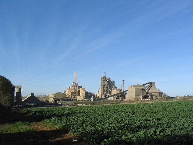 Ketton cement works Visible for miles around. But nevertheless, an important local industry recently celebrating 75 years production at this site.